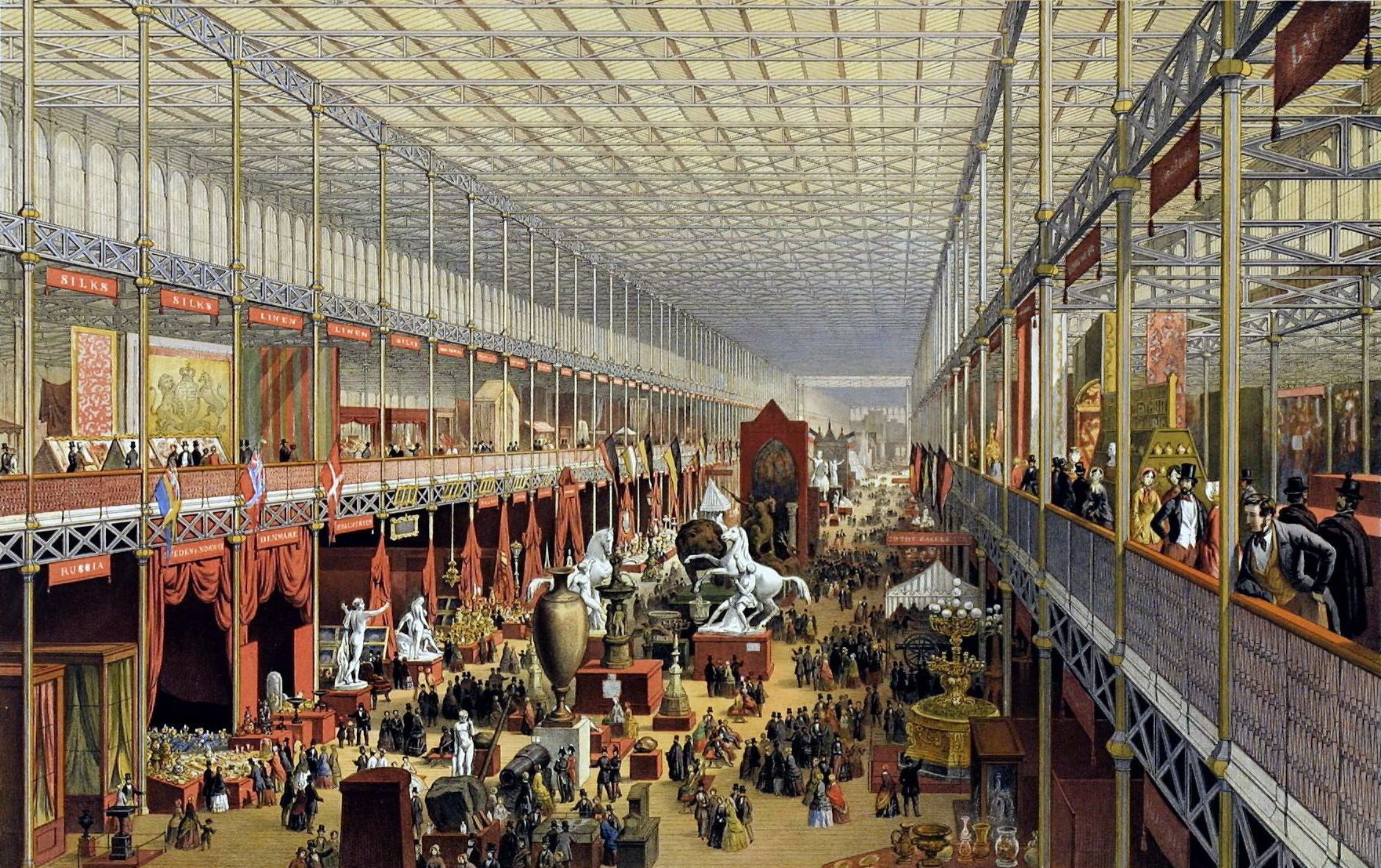 McNeven, J., The Foreign Department, viewed towards the transept, coloured lithograph, 1851, Ackermann (printer), V&A. The interior of the Crystal Palace in London during the Great Exhibition of 1851.